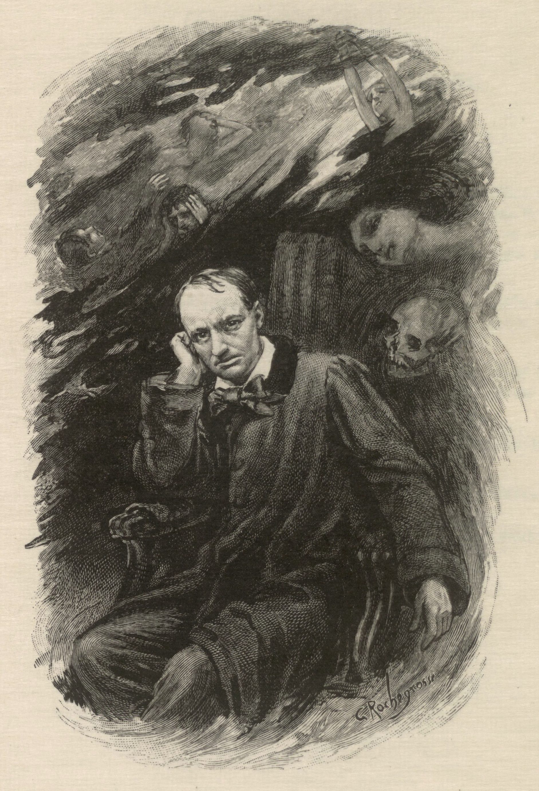 Wood engraved portrait of Baudelaire surrounded by ghosts; frontispiece to Les fleurs du mal.